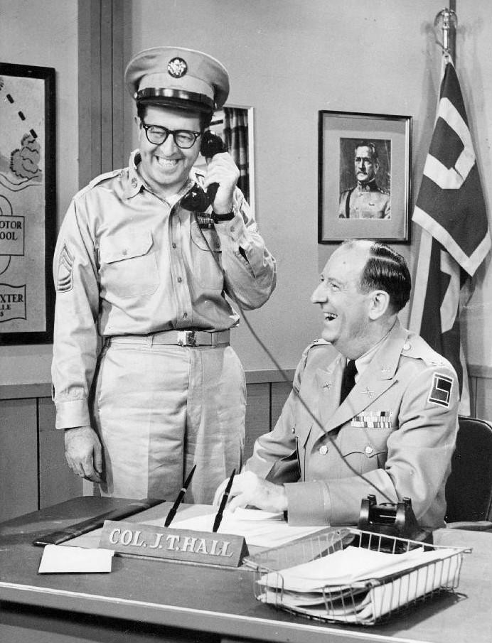 Publicity photo of Phil Silvers (Ernie Bilko) and Paul Ford (Col. Hall) from You'll Never Get Rich.